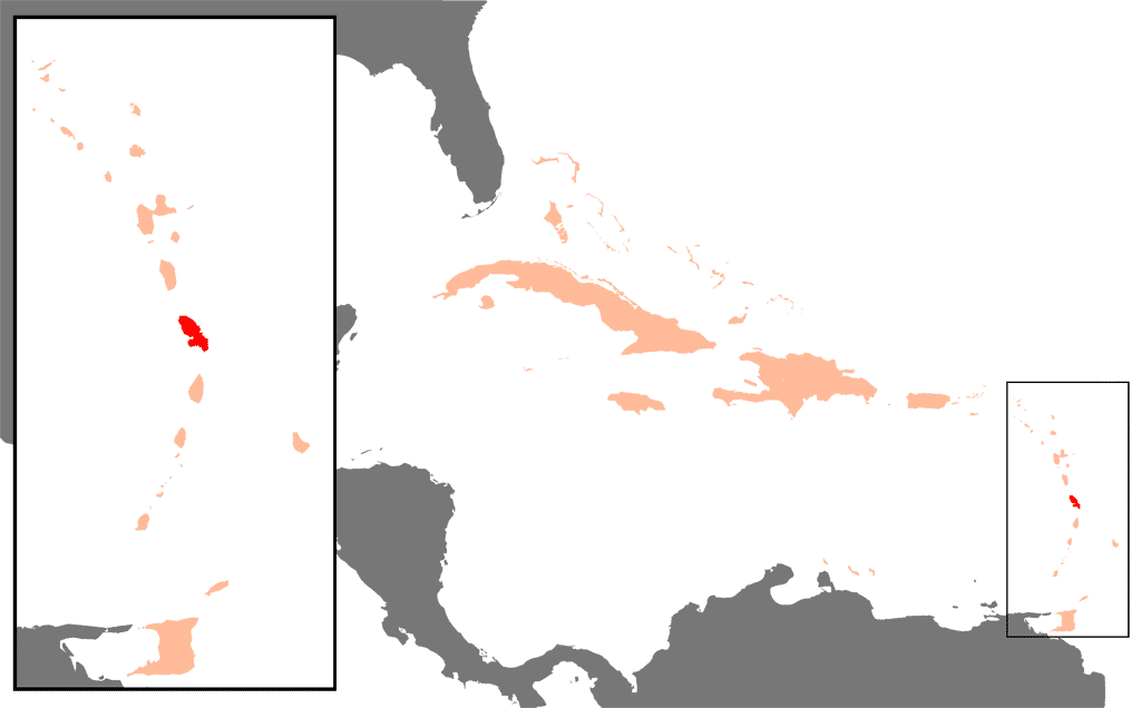 Position of Martinique in the Caribbean